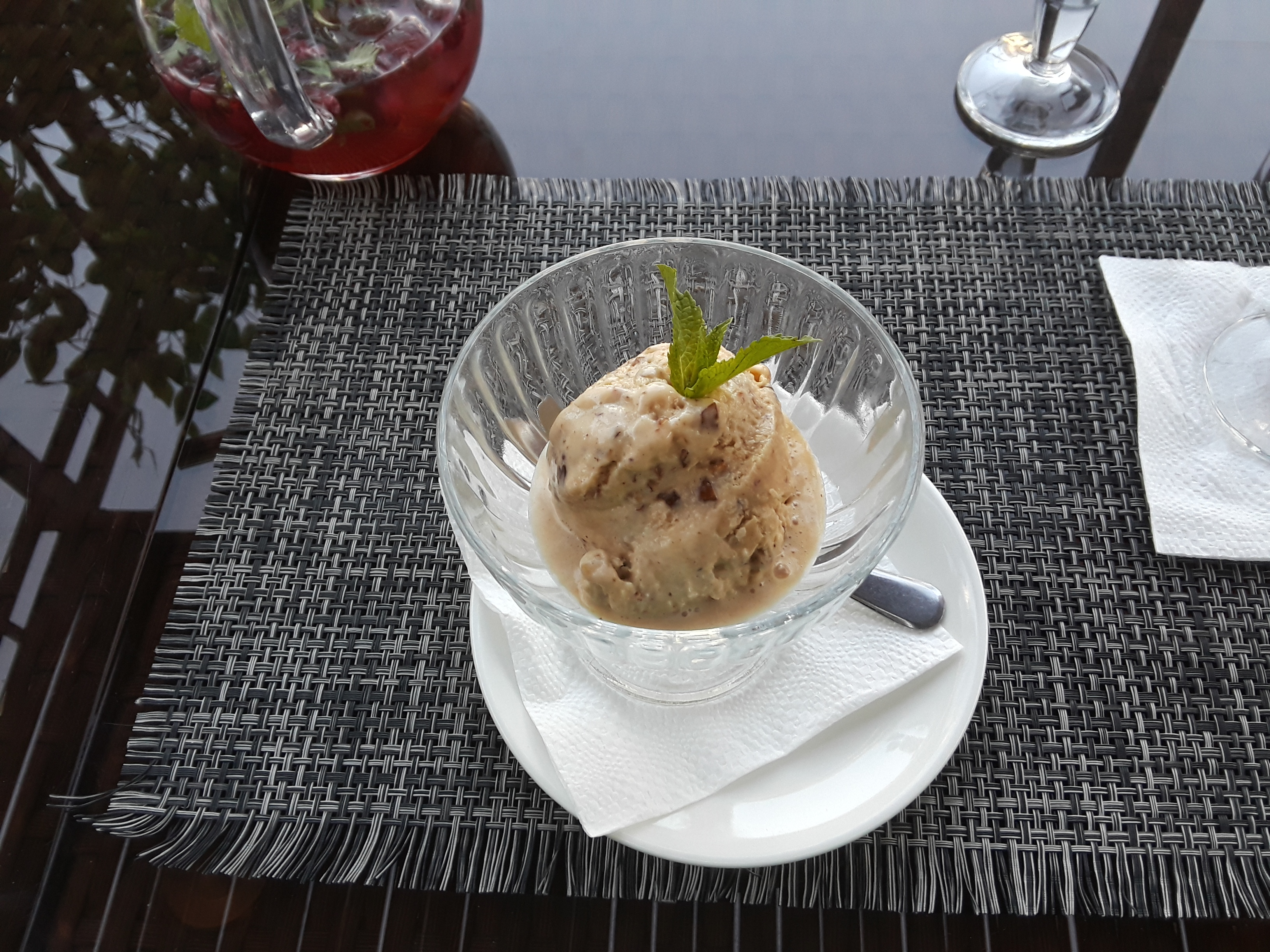 Cuisine of Kazakhstan at a restaurant in Nur-Sultan